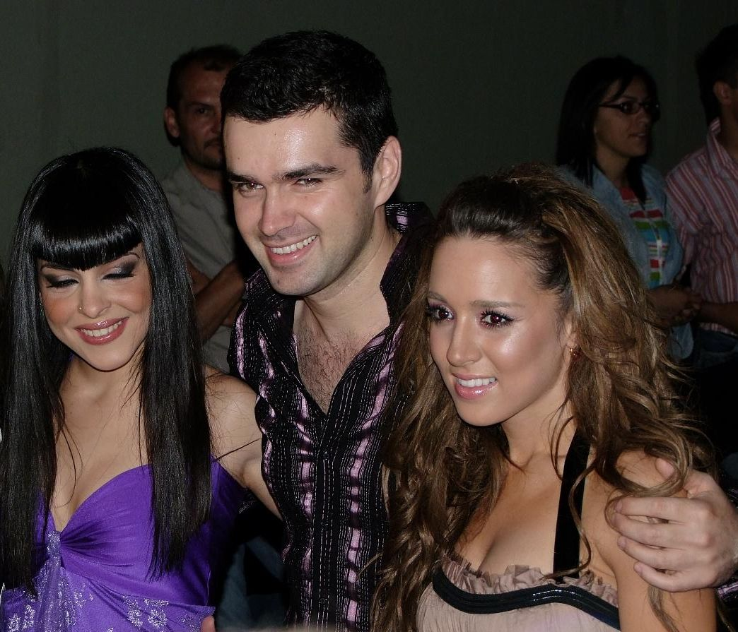 Left ro right: Evdokia Kadi (Cyprus), Vlad Miriţă (Romania) and Kalomoira (Greece) at an ESC party in Belgrade, May 16, 2008